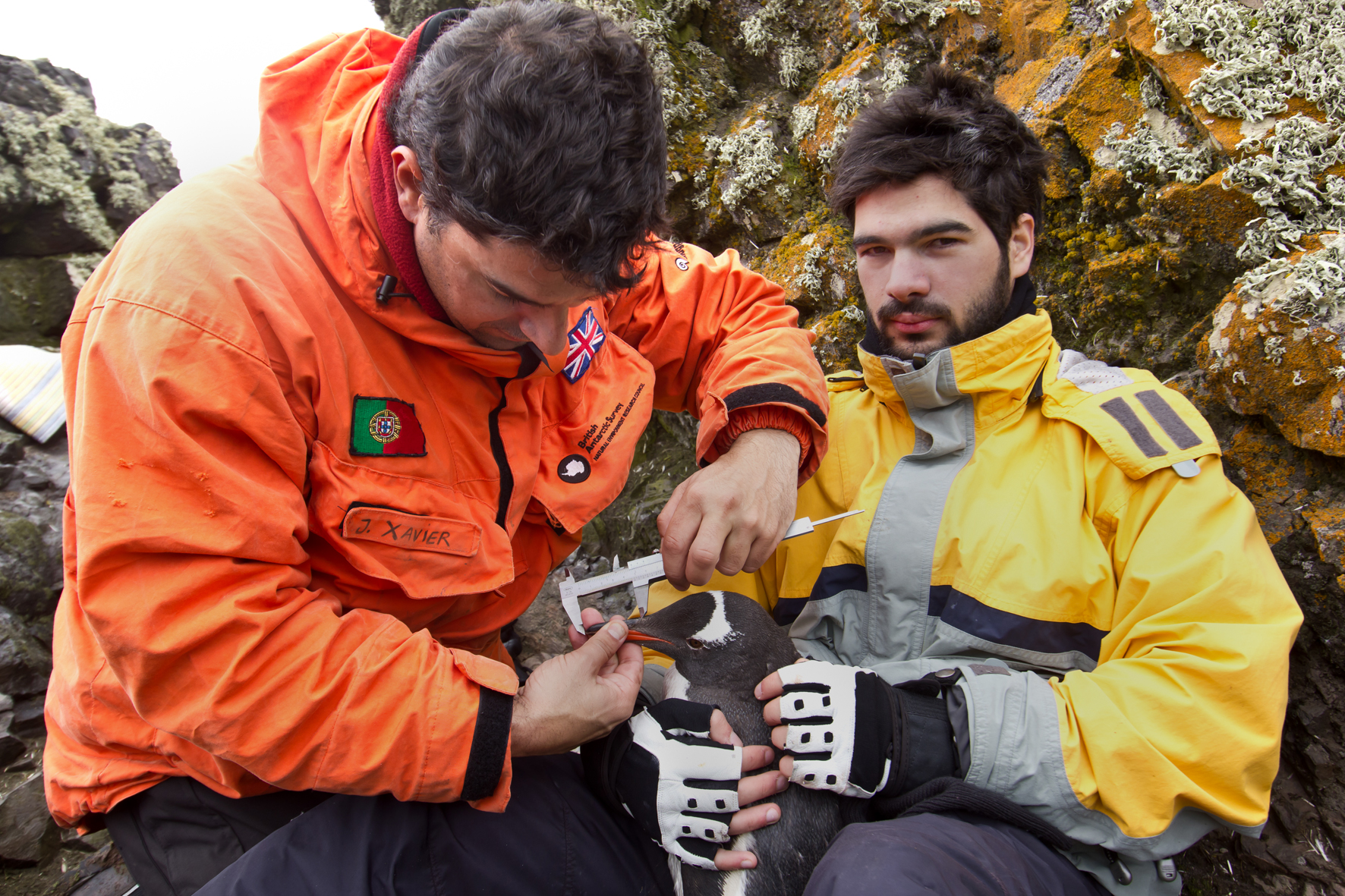 José Xavier in Hanna Point, Antarctica